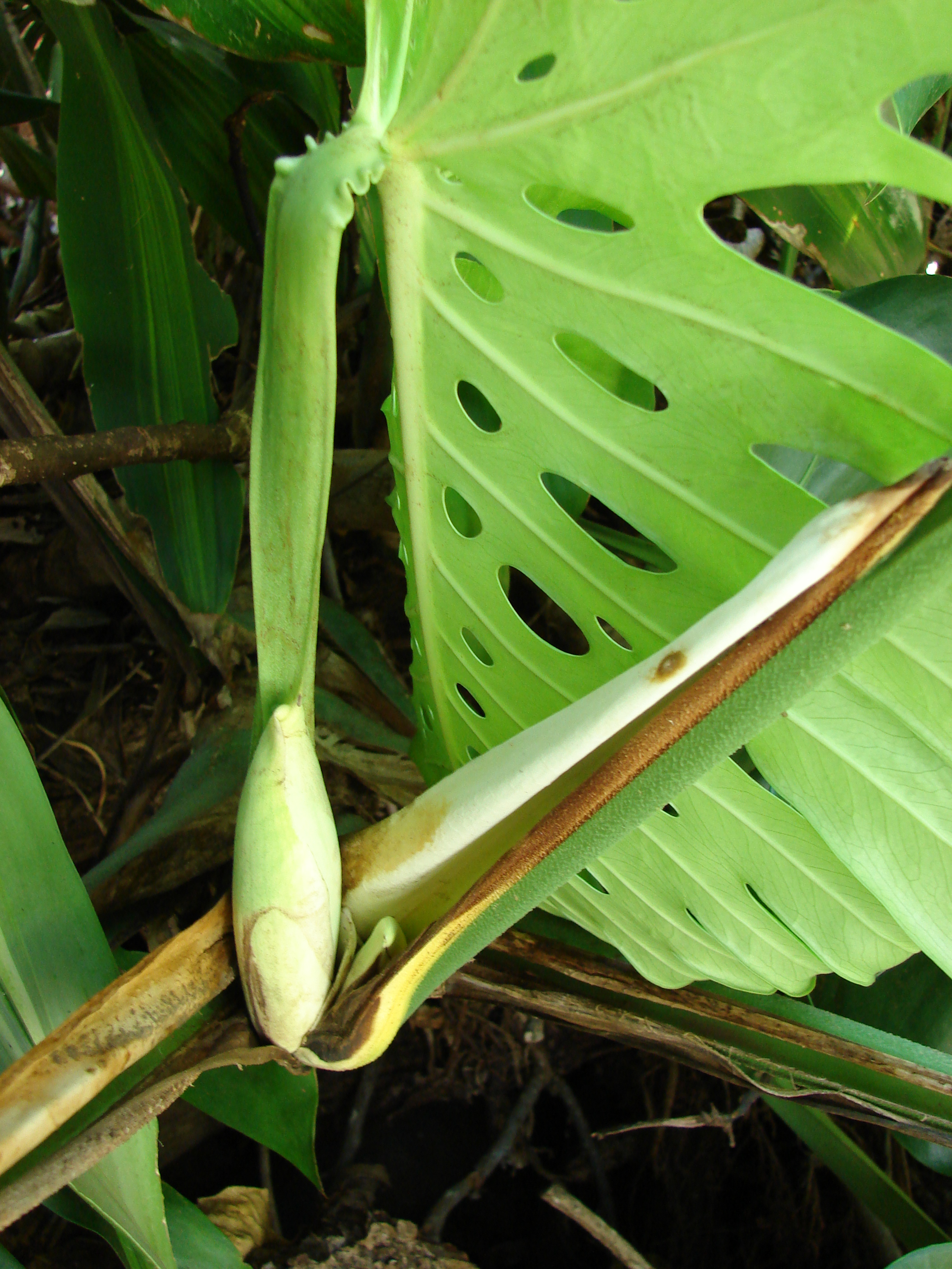 Monstera deliciosa (flower). Location: Maui, Makawao